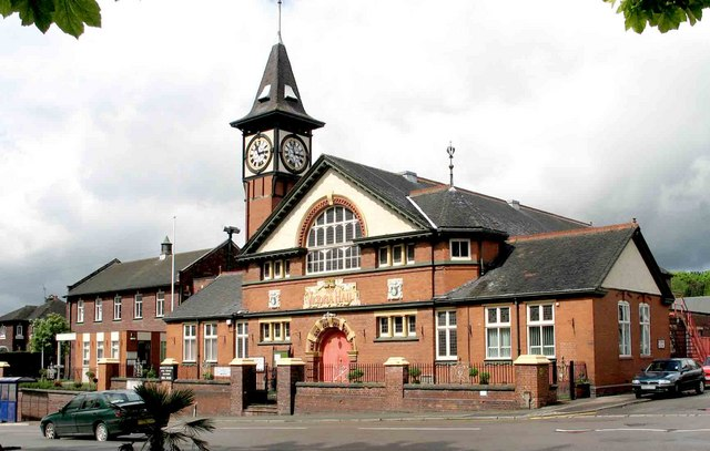 Victoria Hall, Kidsgrove; design by Absalom Reade Wood, built 1897